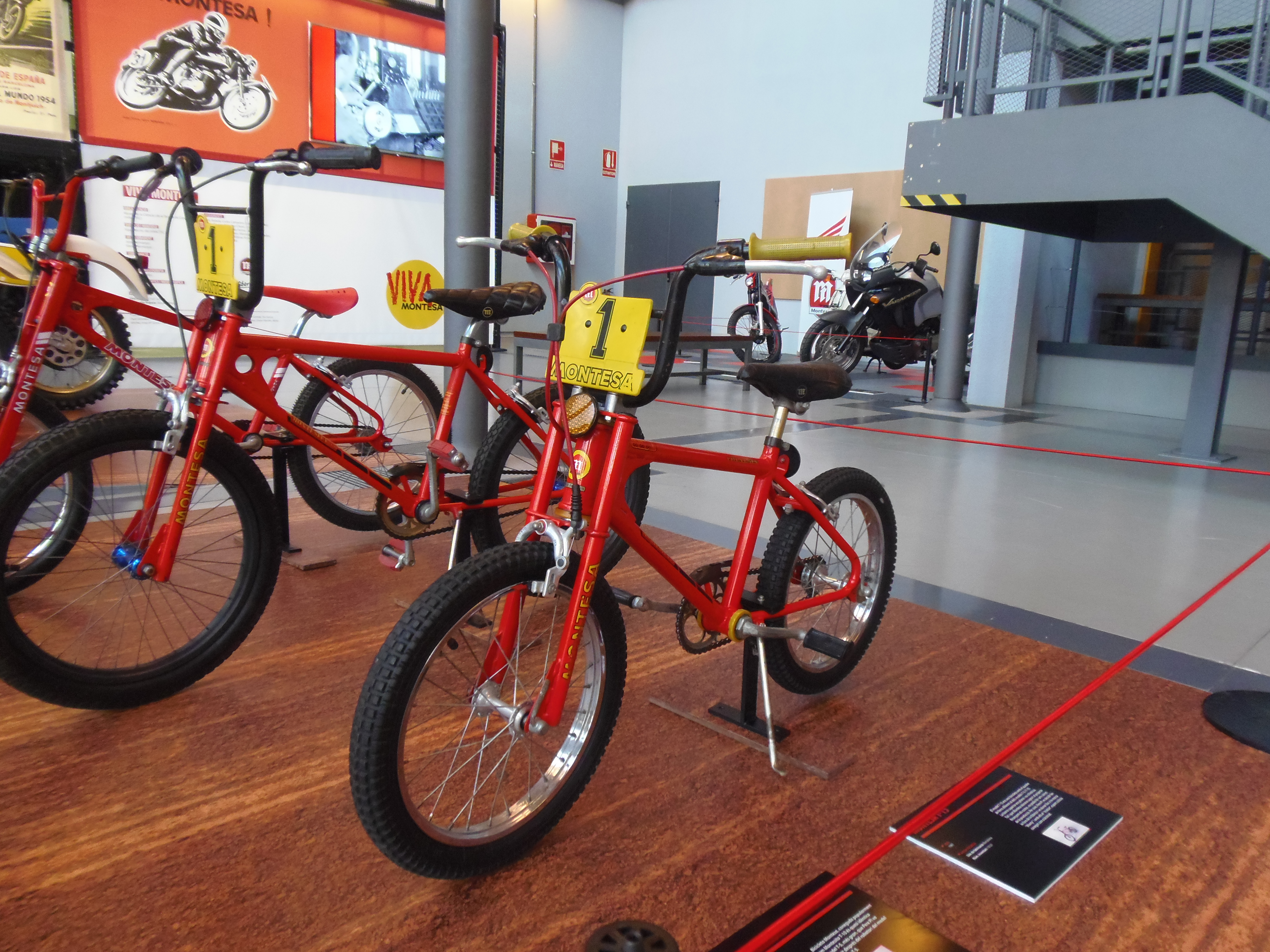 Right: Montesita T-5, 1979